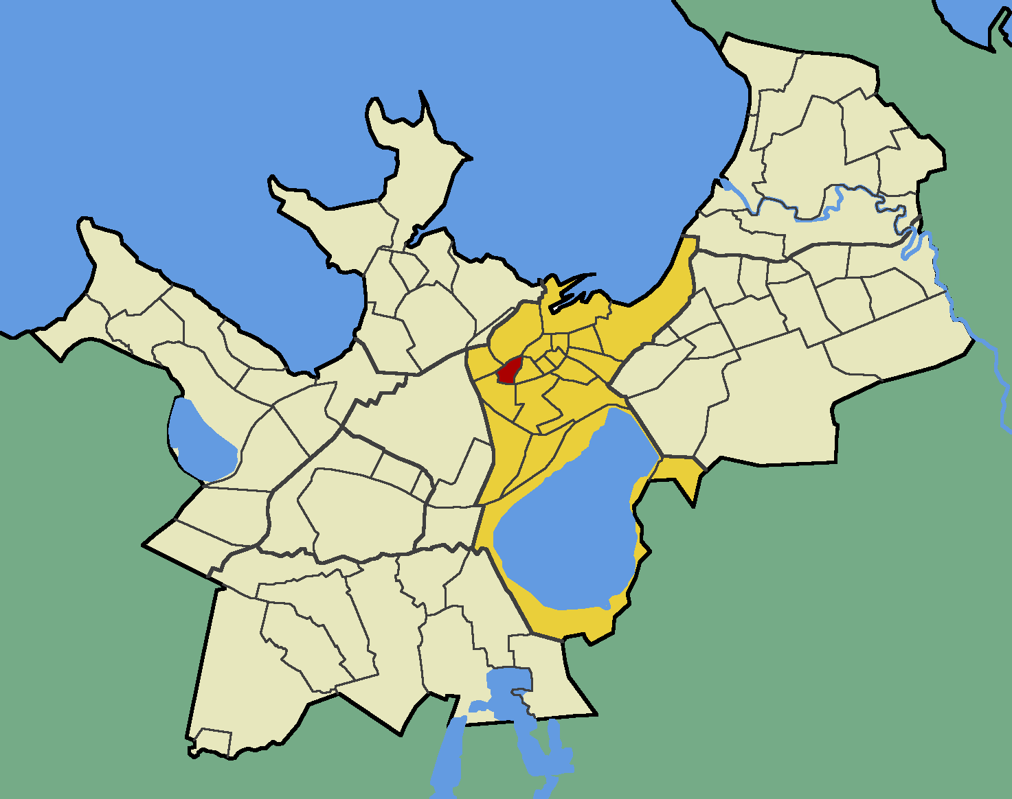 Map of Tallinn (Estonia) with borders of the quarters, Kesklinn district and Tõnismäe quarter emphasised